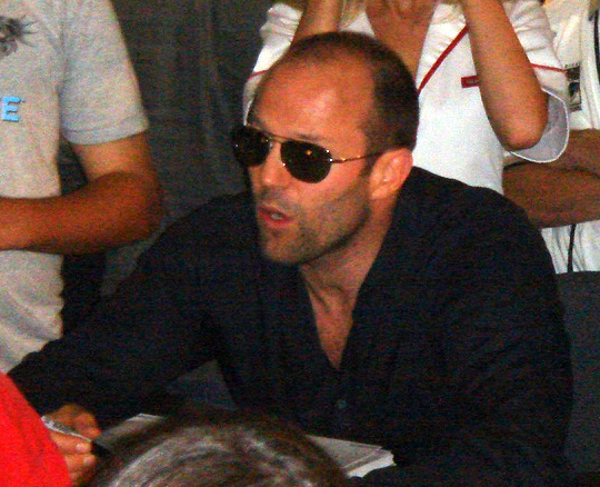 Jason Statham at the 2006 San Diego Comic-Con International.